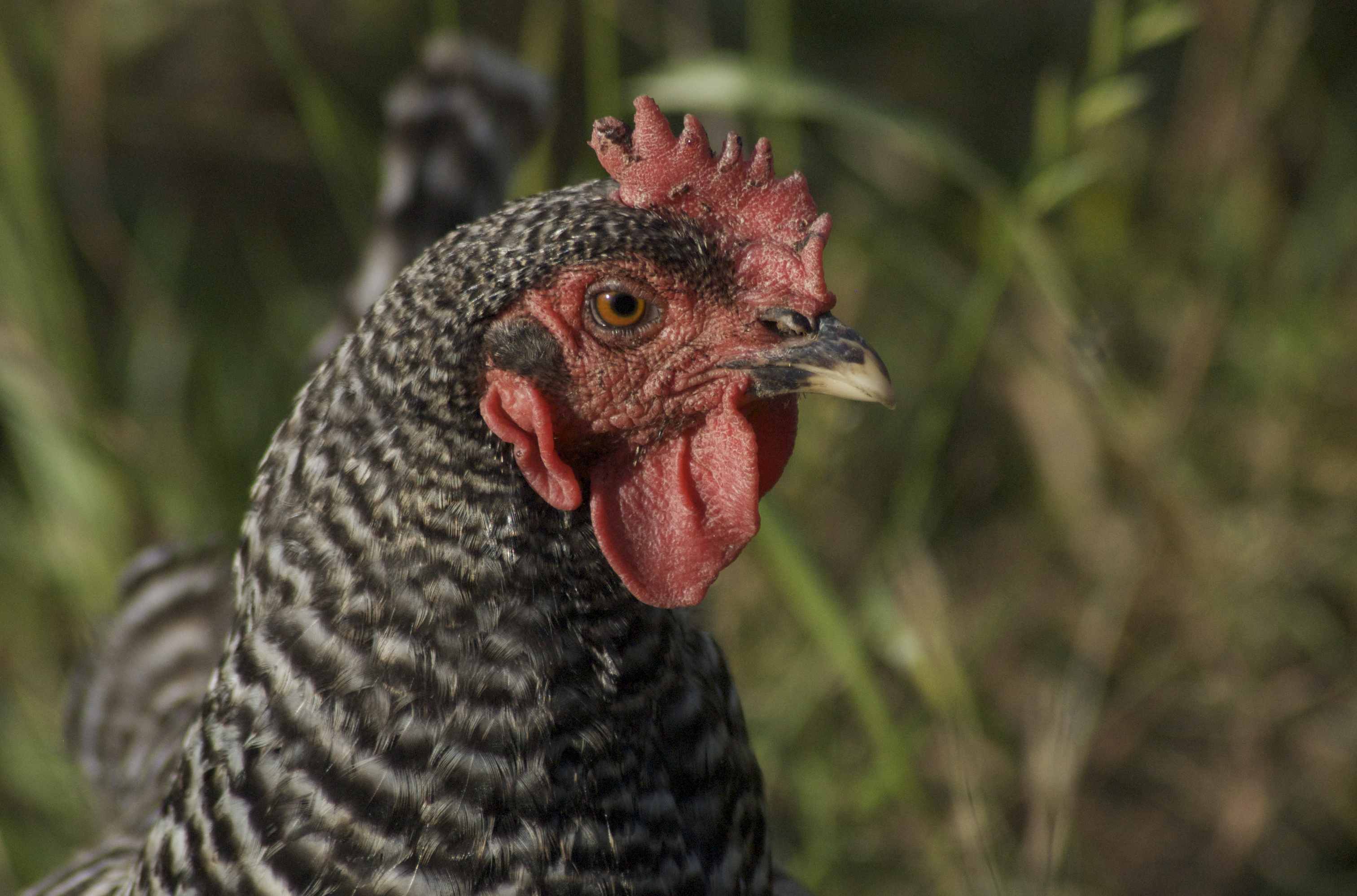 A Barred Plymouth Rock hen.